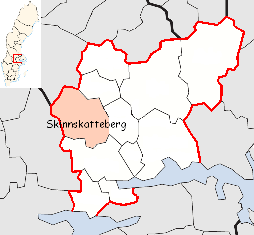 Skinnskatteberg Municipality in Västmanland County Designed by me. Mere outlines are a PD source from